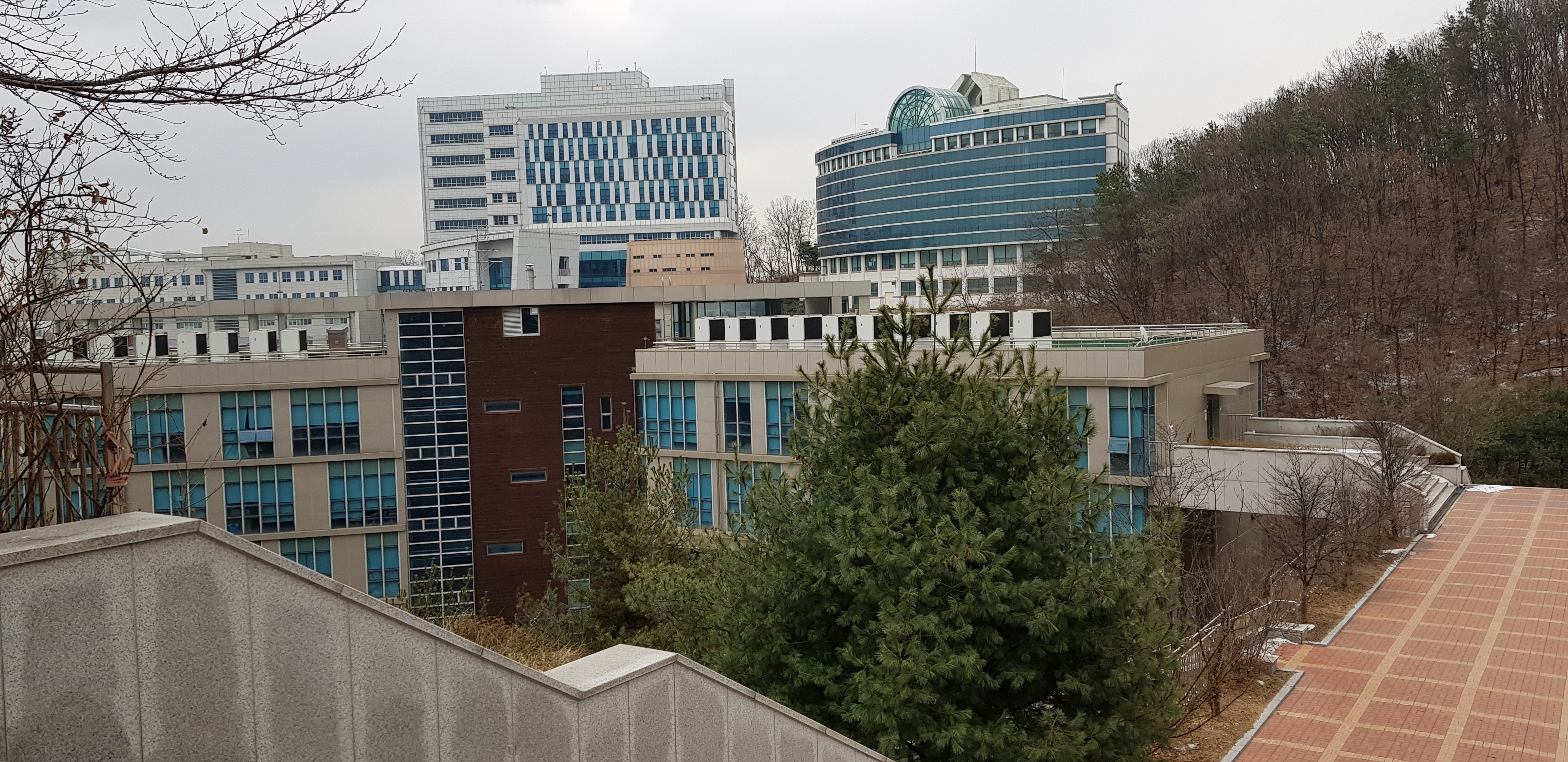 Buildings of Hyubsung University in Kyunggi do South Korea